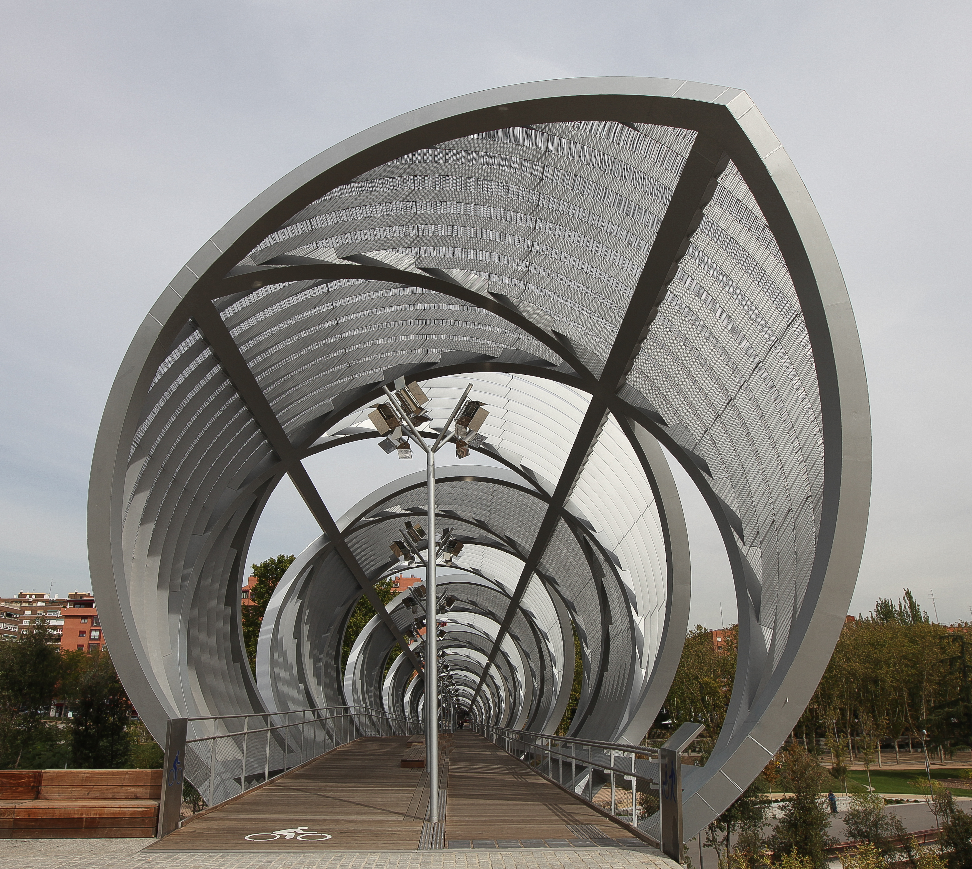 Details of the Arganzuela footbridge over the Arganzuela Park and the rio Manzanares in Madrid, Spain, designed by Dominique Perrault. Larger parts of the bridge can be seen in another photo in this set.